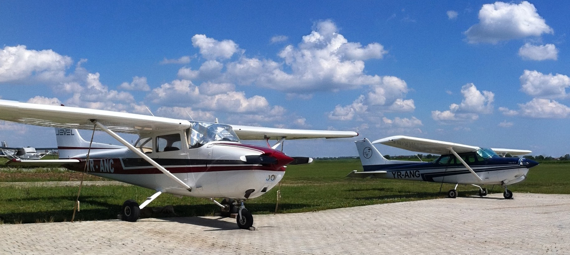 Fly Level's Cessna 172N and Cessna 172RG at Clinceni Aerodrome, Romania